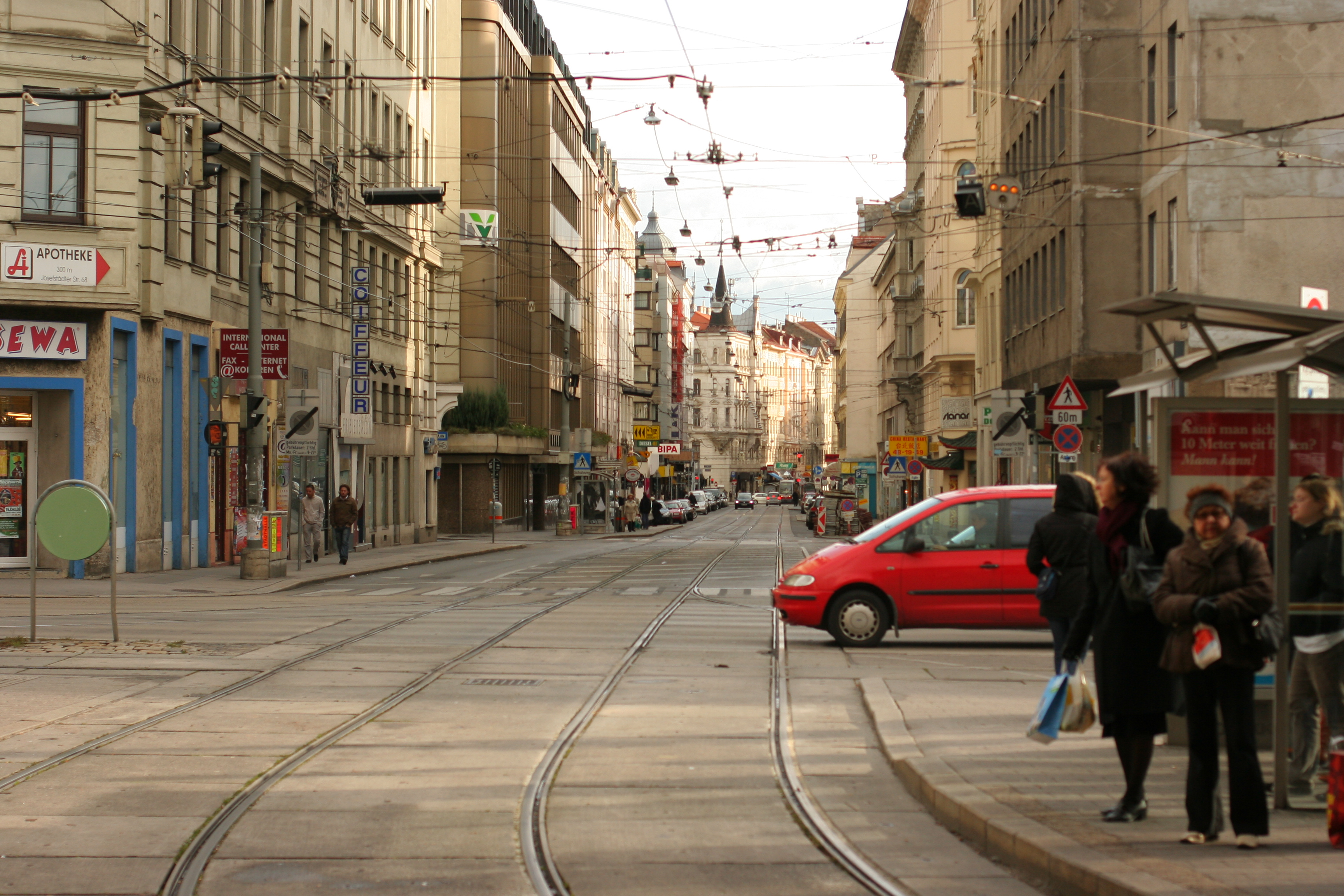 Josefstädter Strasse in Vienna's 8th district; view from Gürtel avenue towards the city centre